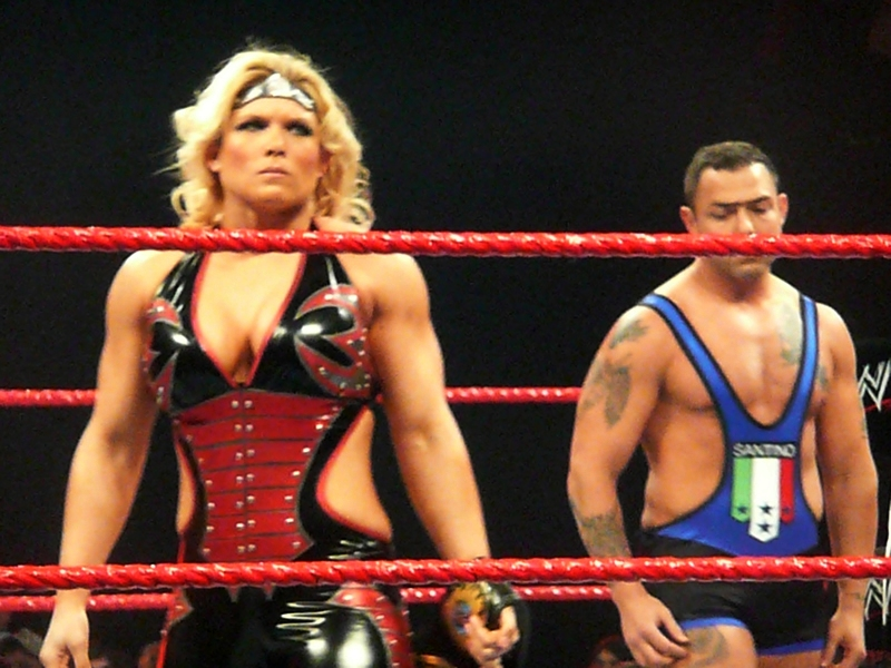 Beth Phoenix and Santino Marella, taken at the Manchester Evening News arena, 10th November 2008 at the WWE Raw taping.